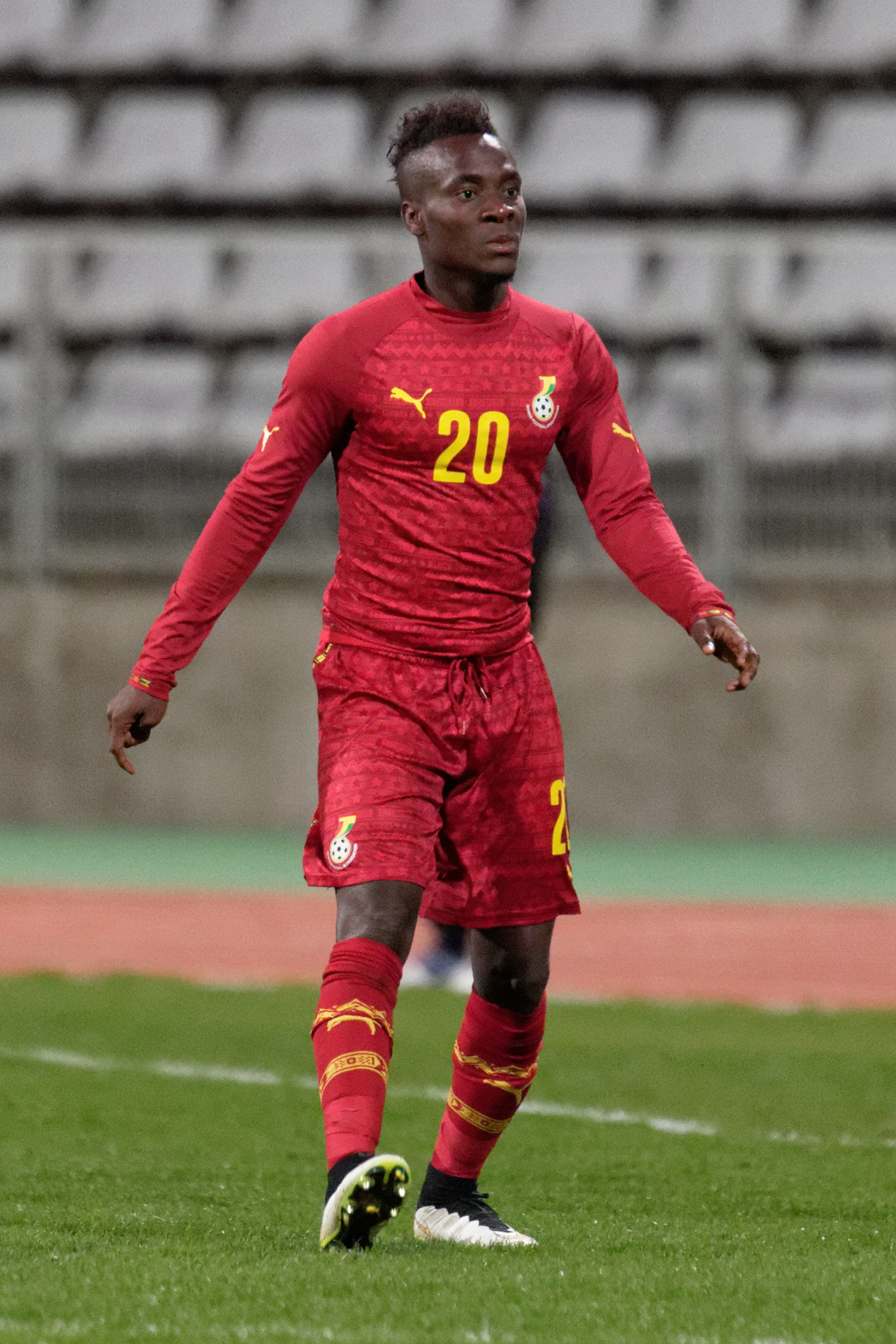 Mali vs Ghana, exhibition game at Paris, 31st March 2015.